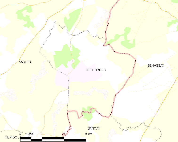 Map of French municipality Les Forges